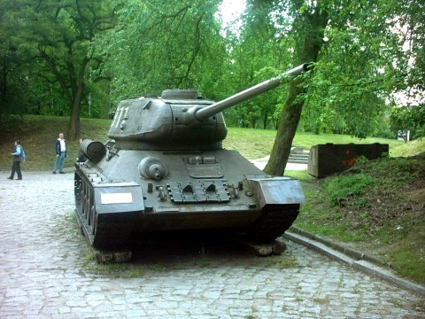 T-34-85 tank at the Museum of Armament in Poznań